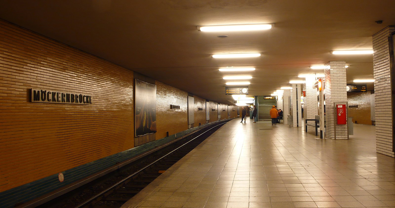 Moeckernbruecke U7 subway